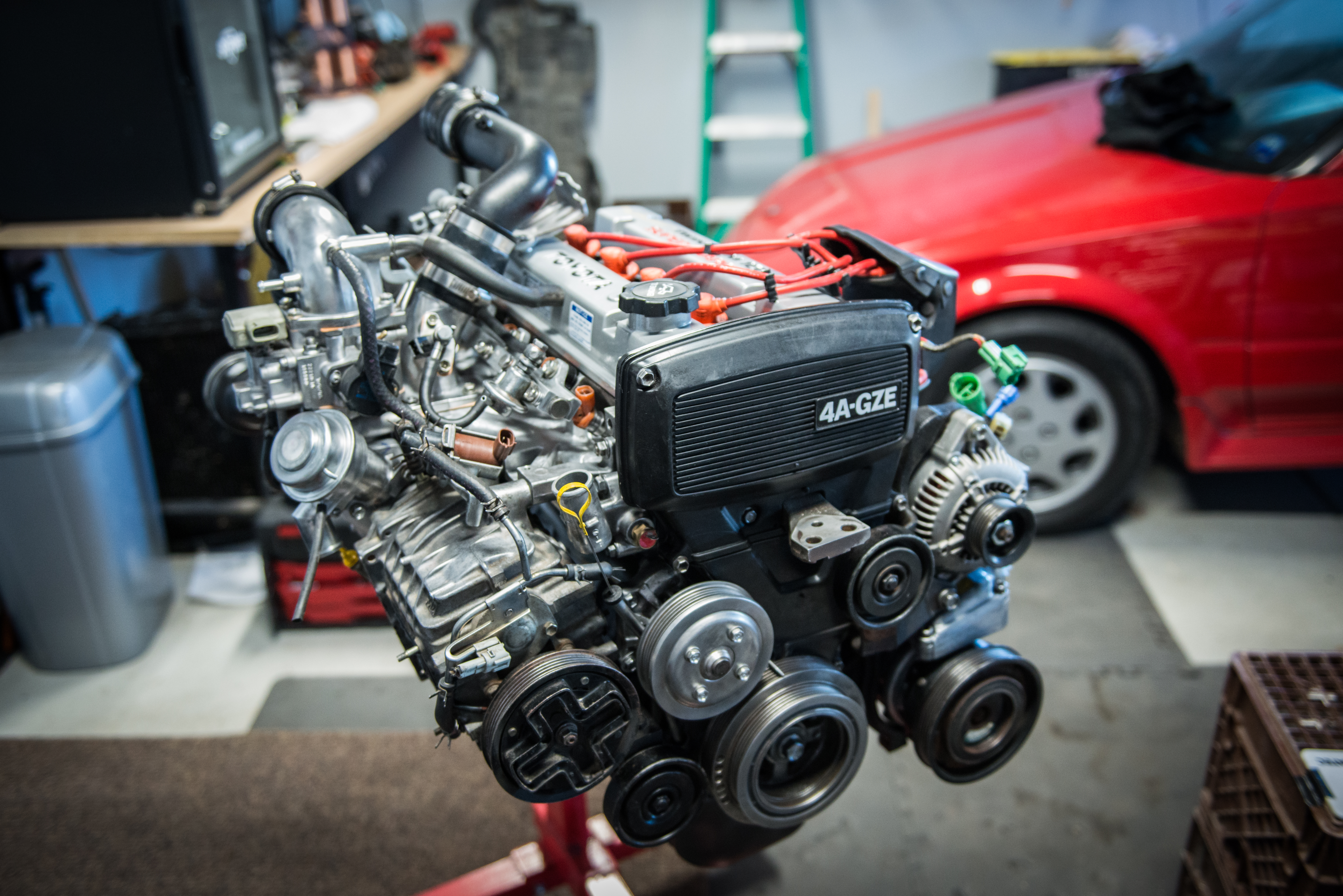 The bigport variant of the 4A-GZE from the United States MR2 Supercharged. Note the electromagnetically-engaged roots type supercharger on the side